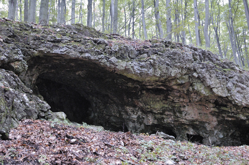 Rock shelter Papuľa (Abri Papuľa), Malé Karpaty